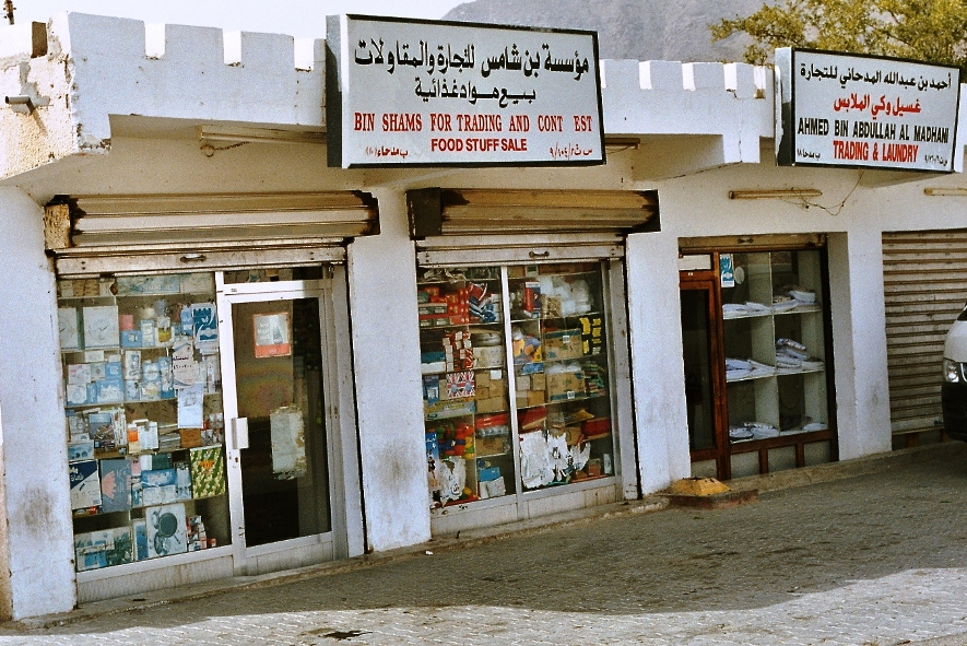 Shops in the village of Harah, Madha, Oman.